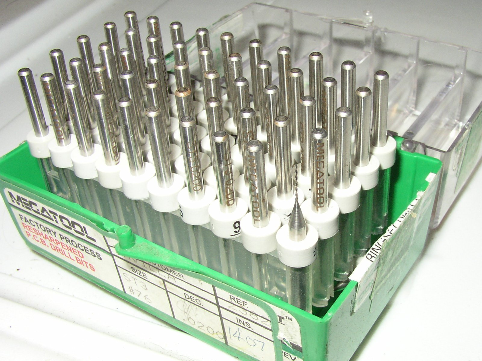 A full box of #76 PCB drill bits. I took this photo myself, of my drill bits, and release it under the GFDL.